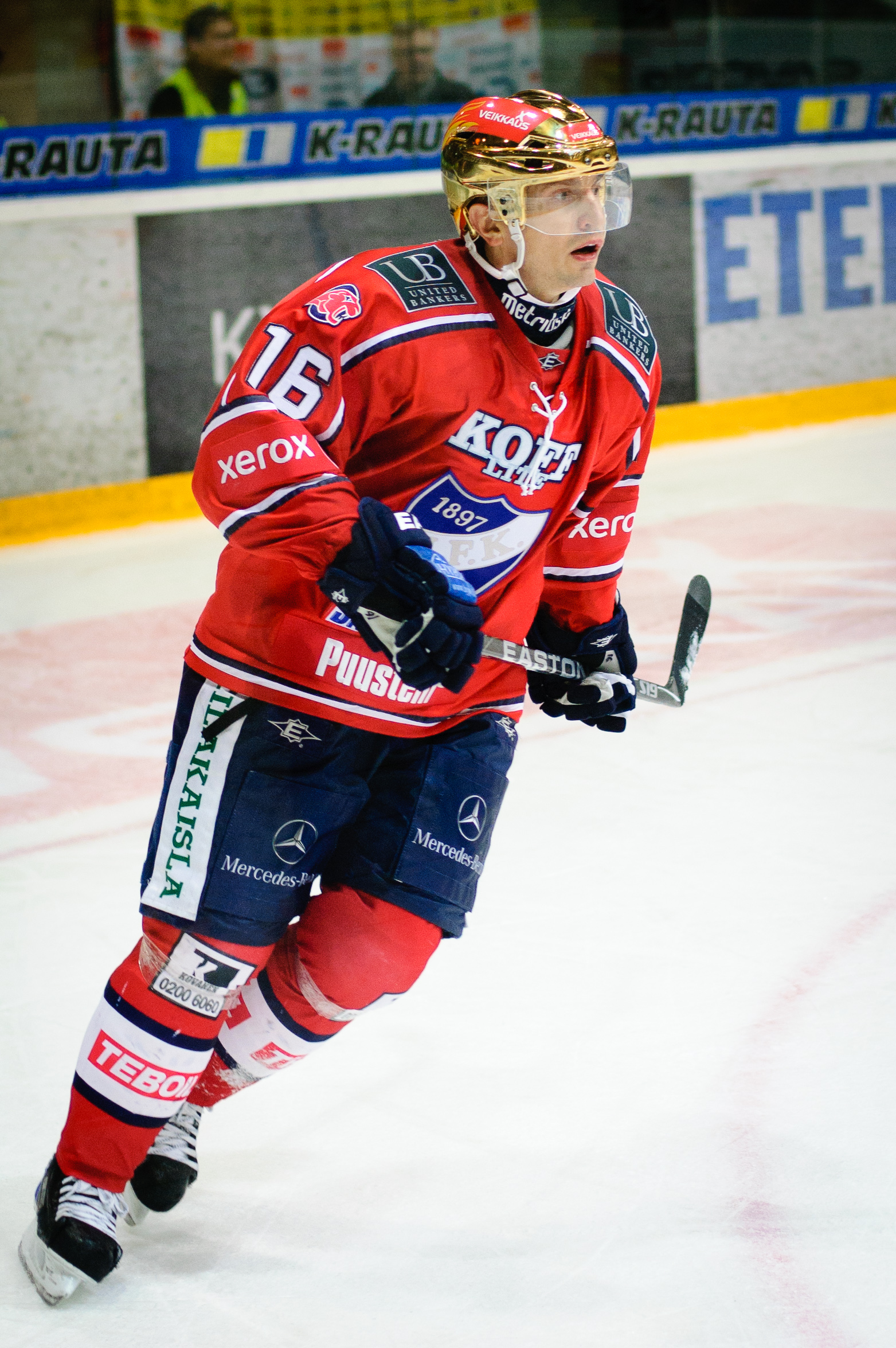 Finnish ice hockey player Ville Peltonen playing for IFK Helsinki against SaiPa Lappeenranta in the Finnish SM-liiga in Lappeenranta, Finland.